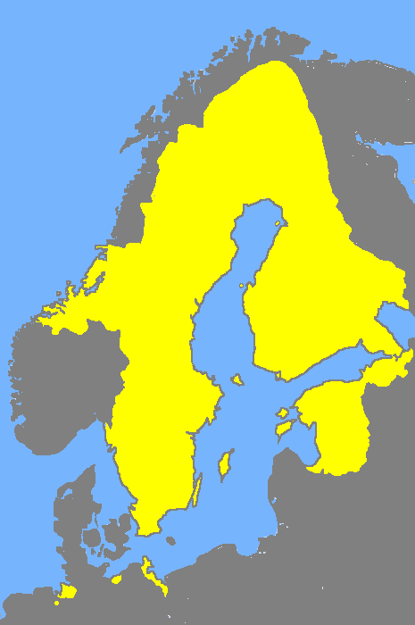 Sweden on the height of its territorial expansion in 1658 (yellow colored area).